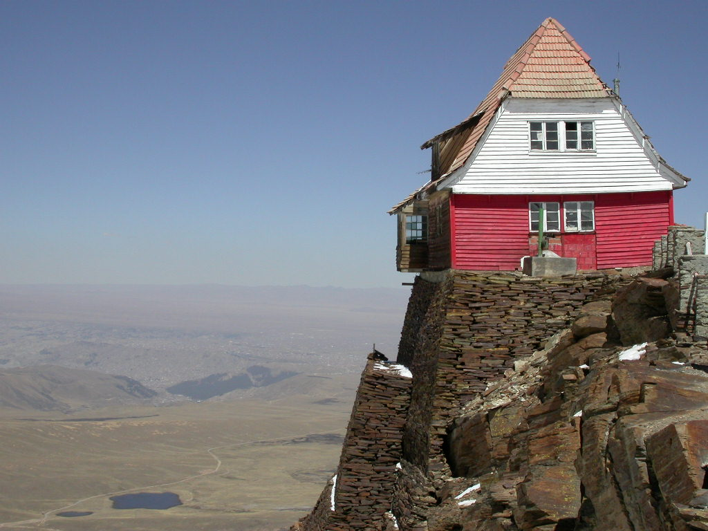 Refugi Chacaltaya (5220m) in Bolivia near the Pic de Chacaltaya (5.395 m)